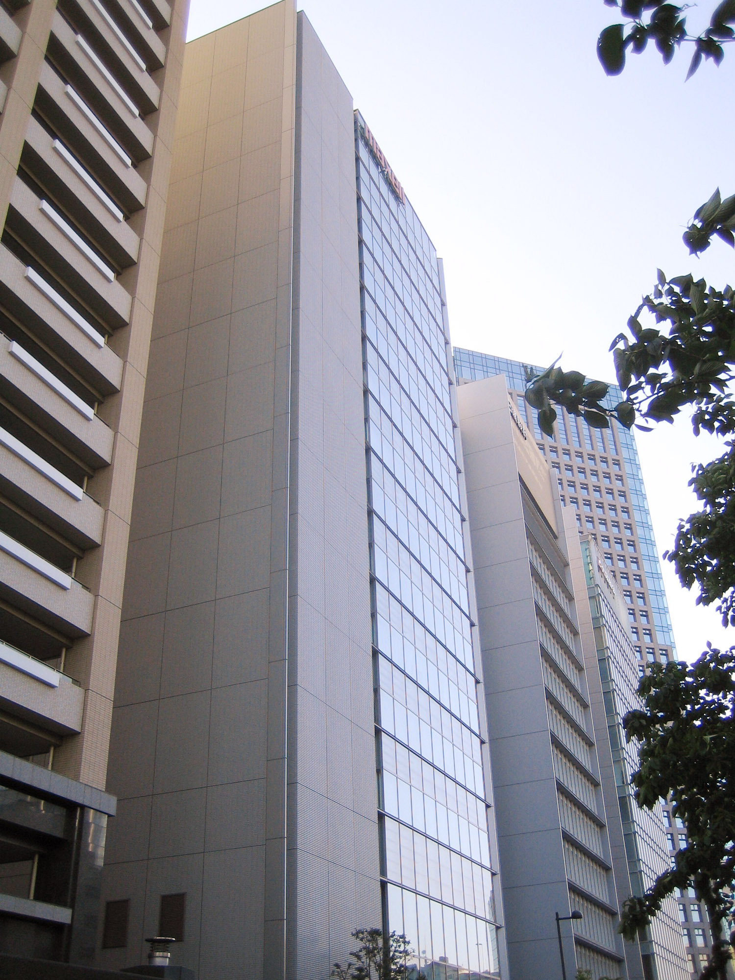 Hitachi Maxell, Ltd. (日立マクセル株式会社), a publisher in Choyoda, Tokyo, Japan